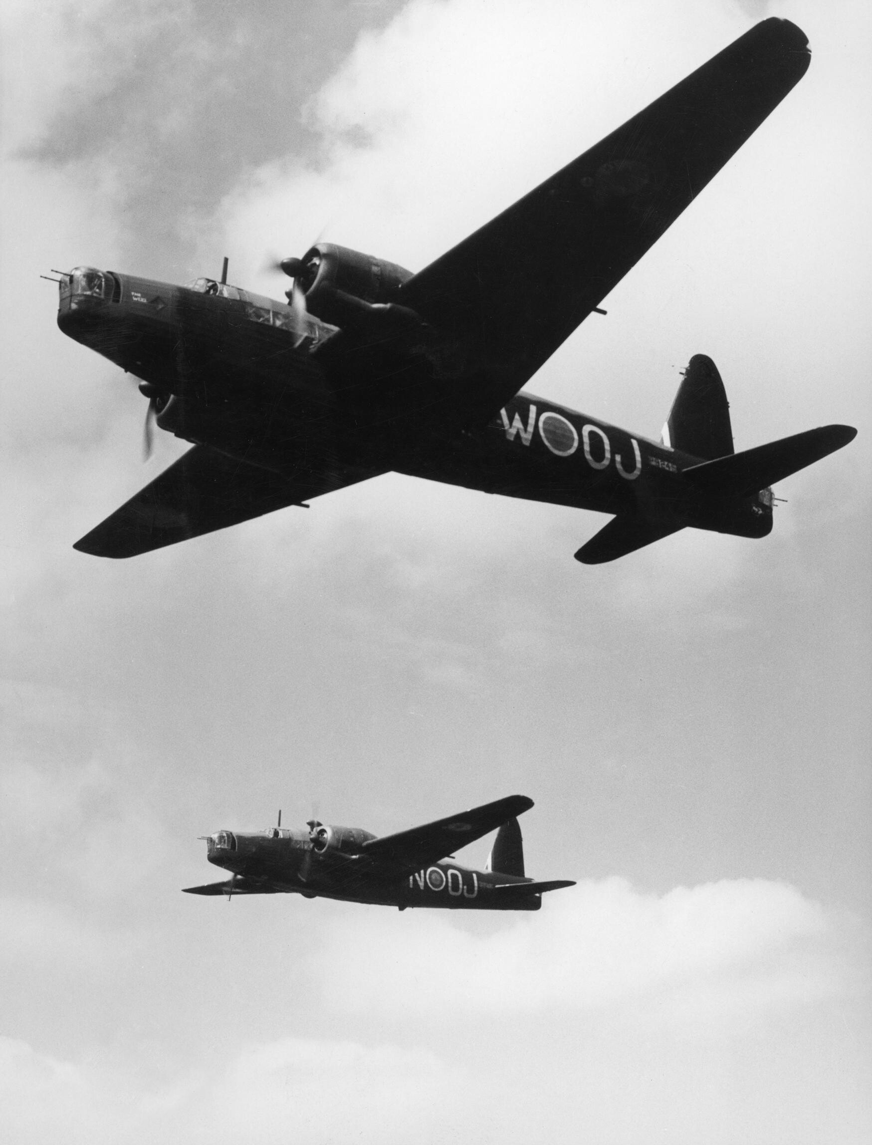 RAF Bomber Command 1940 Vickers Wellington Mk IC bombers of No. 149 Squadron in flight, circa August 1940.